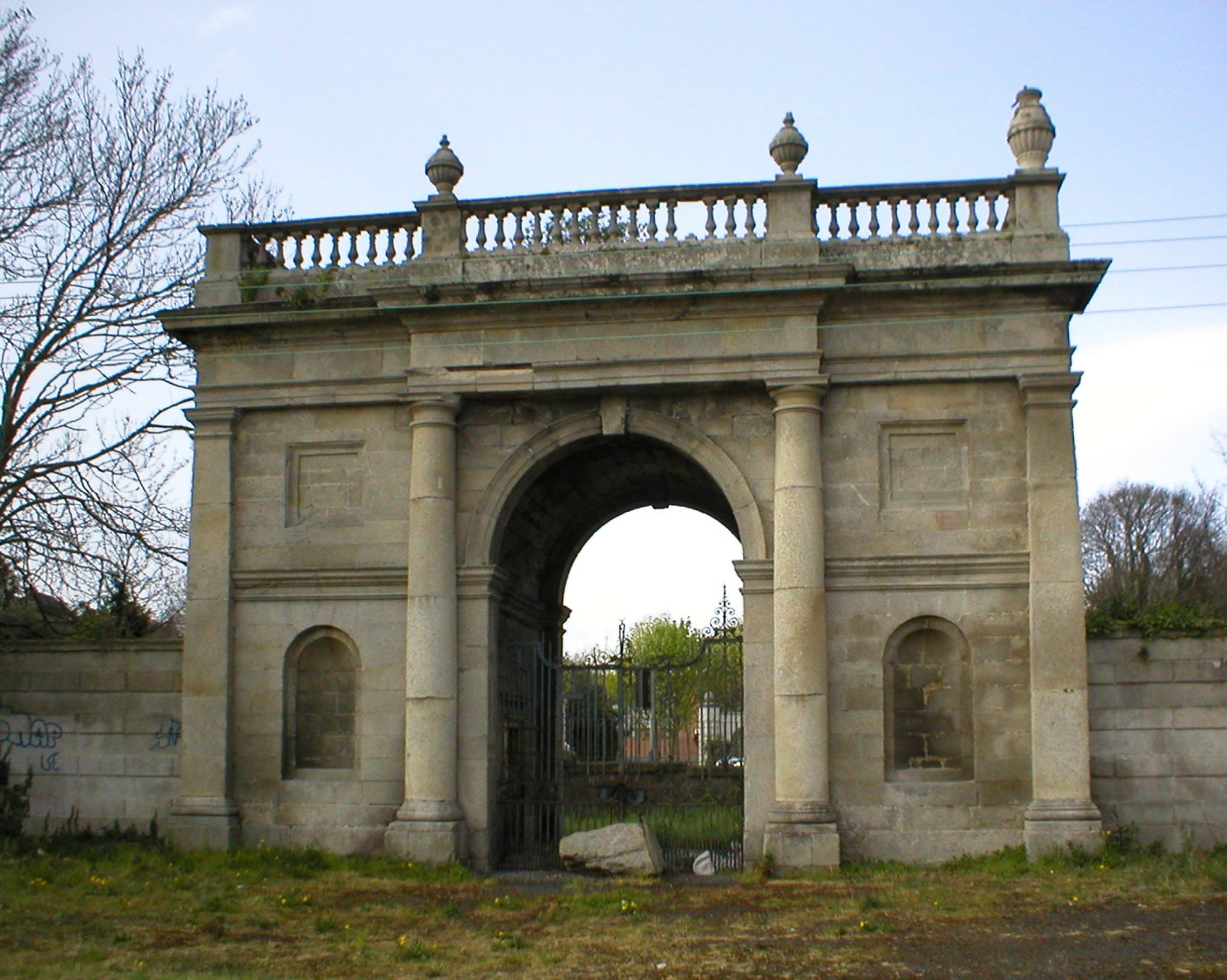 original digital image Suckindiesel 20:23, 16 April 2007 (UTC)